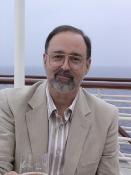 Philip David Morehead Source Philip David Morehead